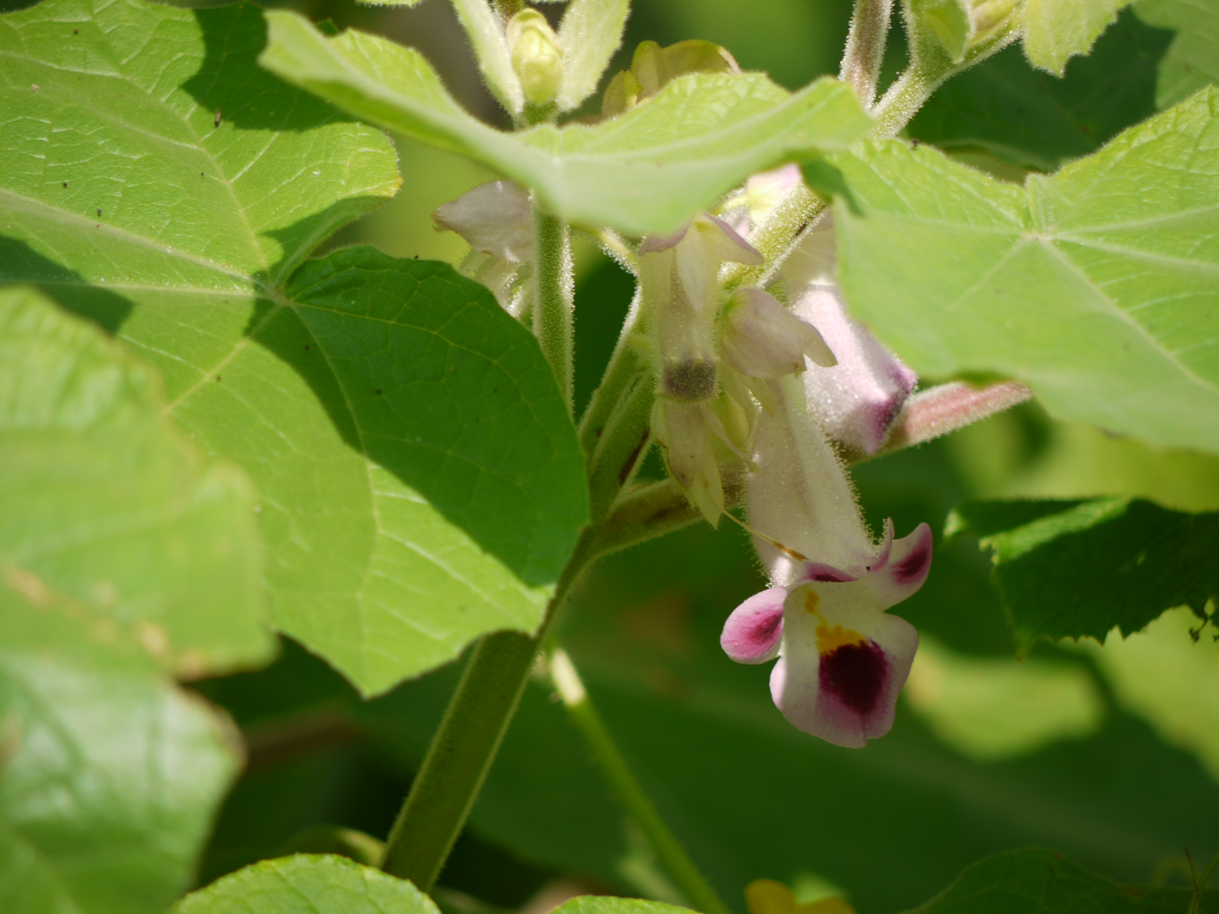 Martyniaceae (devil's claw family) » Martynia annua mar-TIN-ee-uh -- named for Dr. John Martyn, Professor of Botany at Cambridge University AN-yoo-uh -- meaning, annual commonly known as: devil's claw, iceplant, tiger's-claw • Bengali: বাঘনখী baghnakhi • Hindi: बाघनख baghnakh, हाथाजोड़ी hatha-jori, उलट-कांटा ulat-kanta • Kannada: ಗರುಡ ಮೂಗು ಮುಳ್ಳು garuda mugu mullu, ಹುಲಿ ನಖ huli nakha, ಹುಲಿ ಉಗುರು huli uguru • Malayalam: പുലിനഖം puli-nakham • Marathi: विंचू vinchu • Nepalese: बिरालो-नङ्ग्रि biralo-nangri, ग्रिध्दरनंकी gridharnankee • Oriya: ବାଘନଖି baghanakhi • Sanskrit: काकनसा kakanasa • Tamil: புலிநகம் puli-nakam, தேட்கொடுக்கி tet-kotukki • Telugu: గరుడముకు garudamukku Native to: Mexico and Central America; widely naturalized in tropics References: Flowers of India • PIER • eFlora